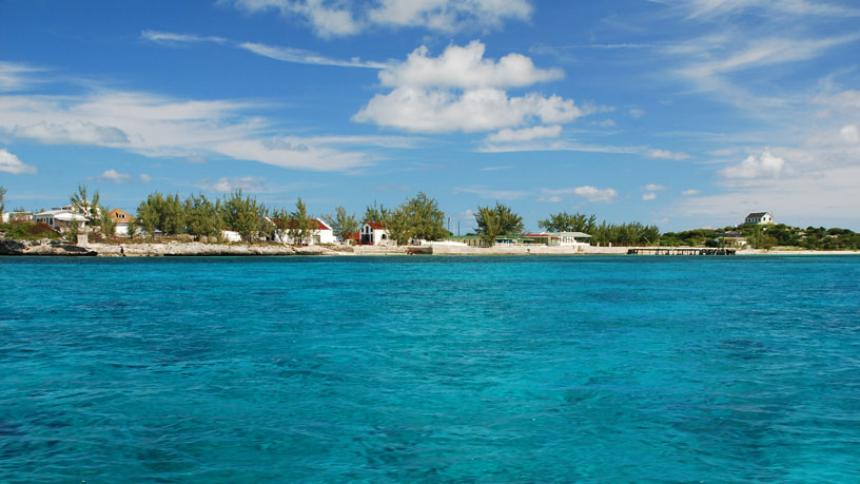 The Village of Cockburn Harbor